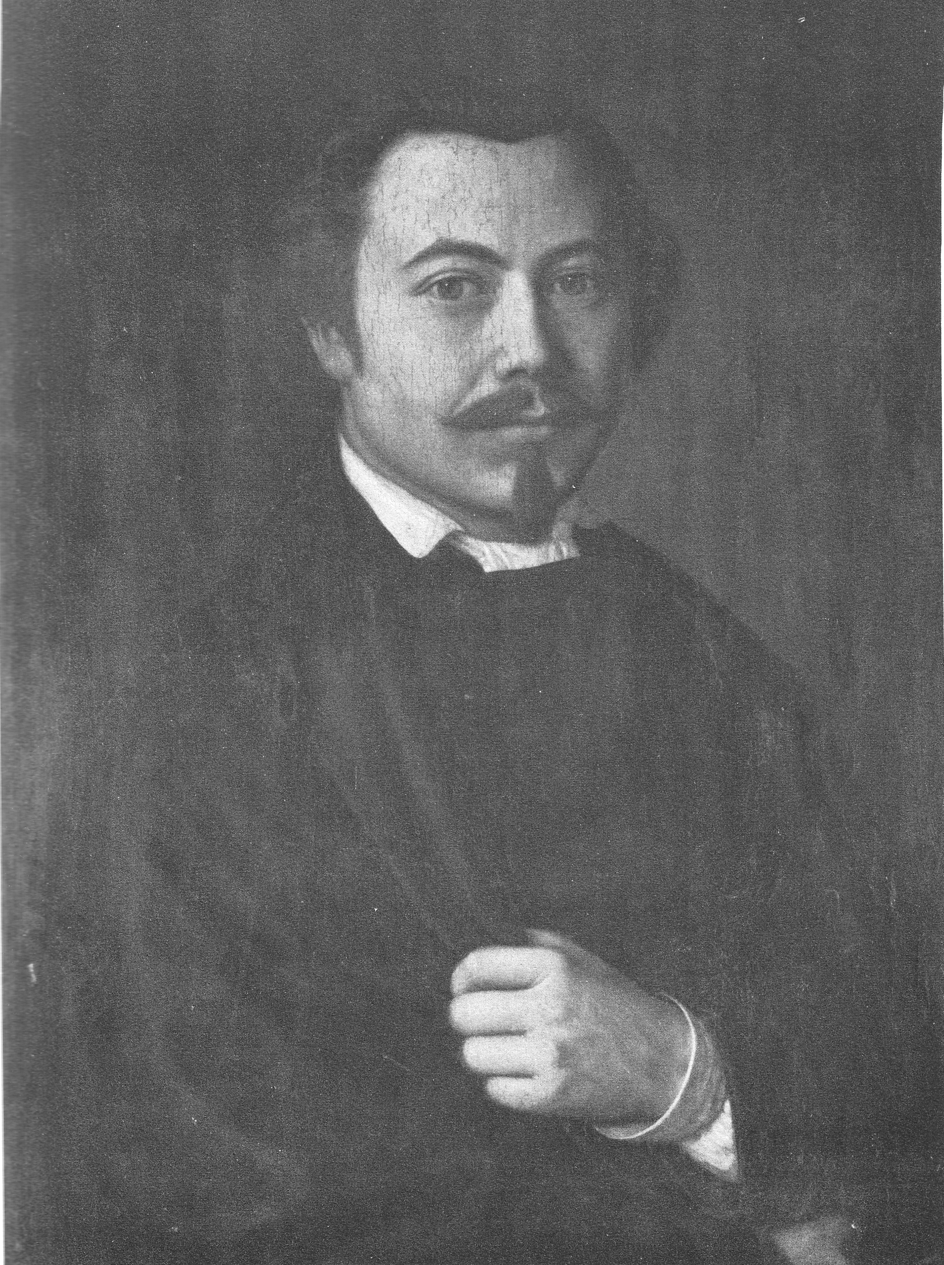 A portrait (oil painting) of Steingrímur Thorsteinsson (1831–1913).